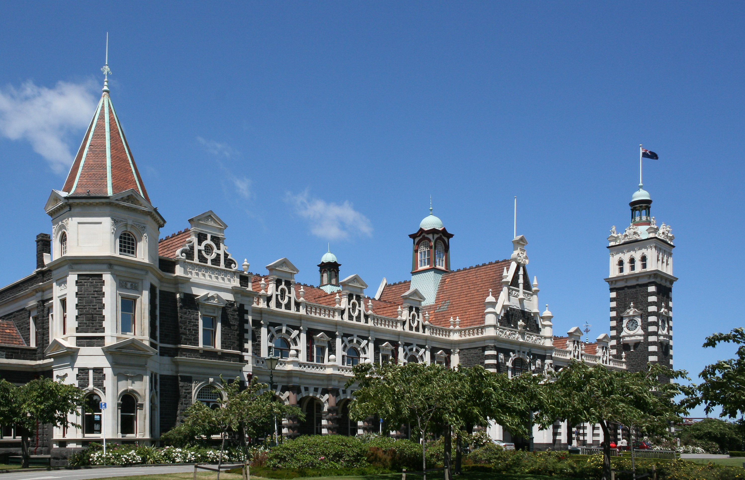 Dunedin Railway Station, Dunedin, New Zealand